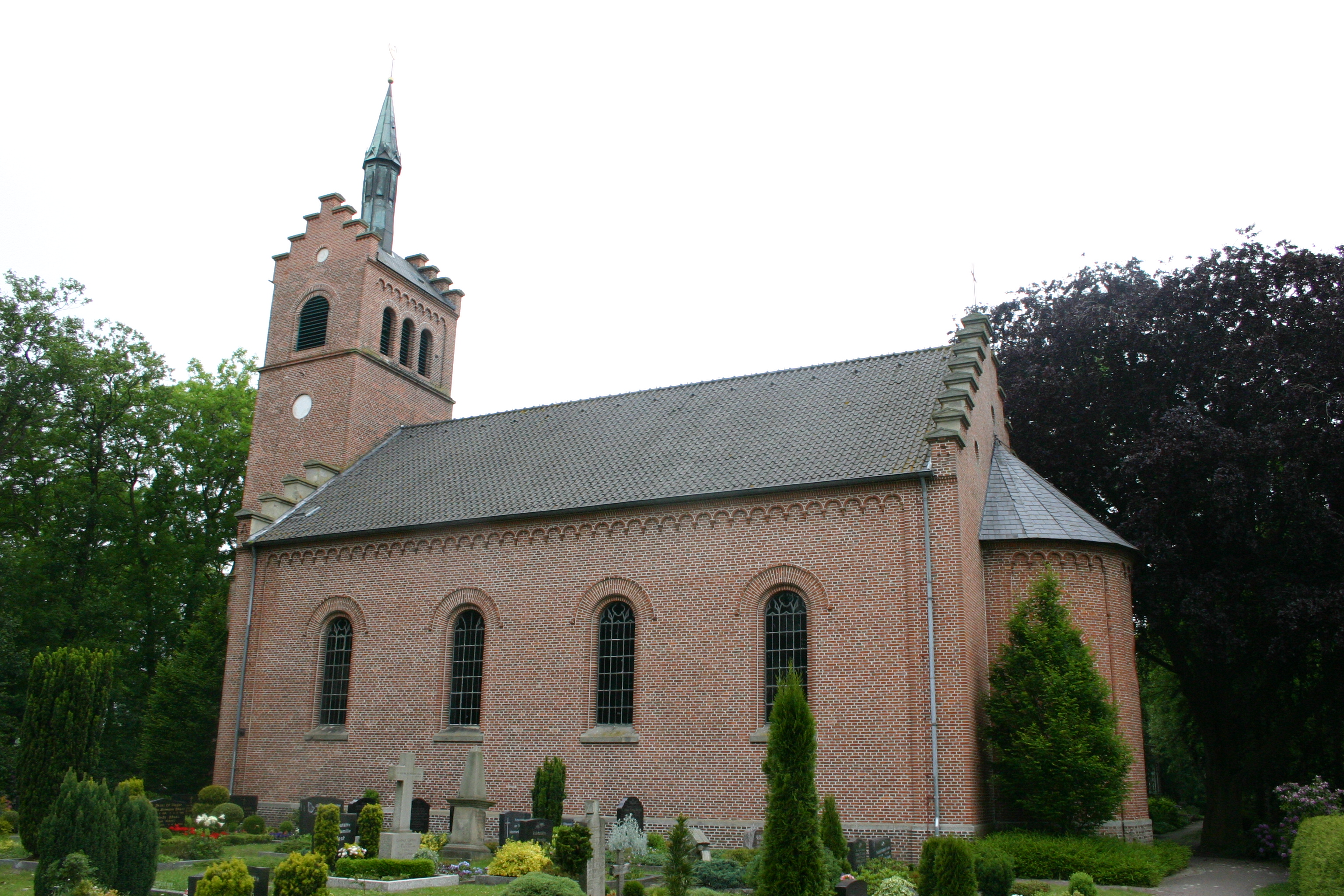 Historic St. Martin Church in Potshausen, district of Leer, East Frisia, Germany